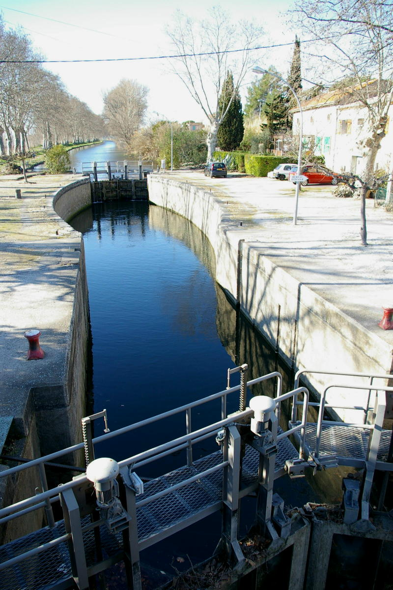 Portiragnes lock on the Canal du Midi, France